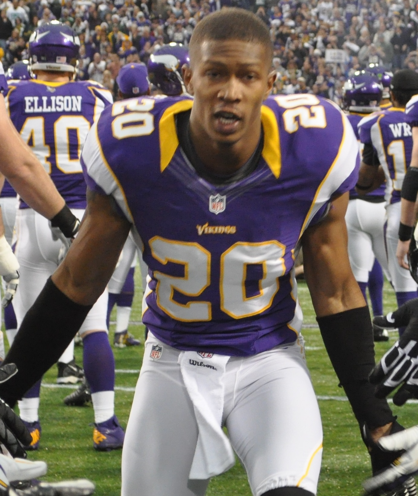 Minnesota Vikings cornerback Chris Cook in pre-game introduction at Hubert H. Humphrey Metrodome, Dec. 30, 2012.